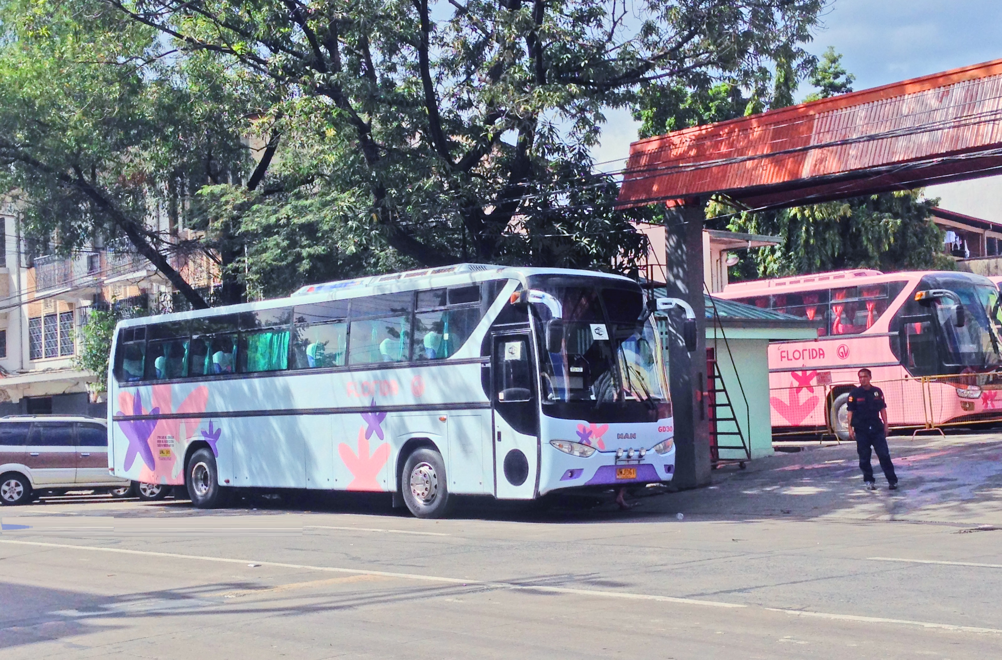 A GV Florida Super Deluxe bus parked on their motorpool in Sampaloc, Manila. In this unit, it is mounted on MAN R39 chassis.